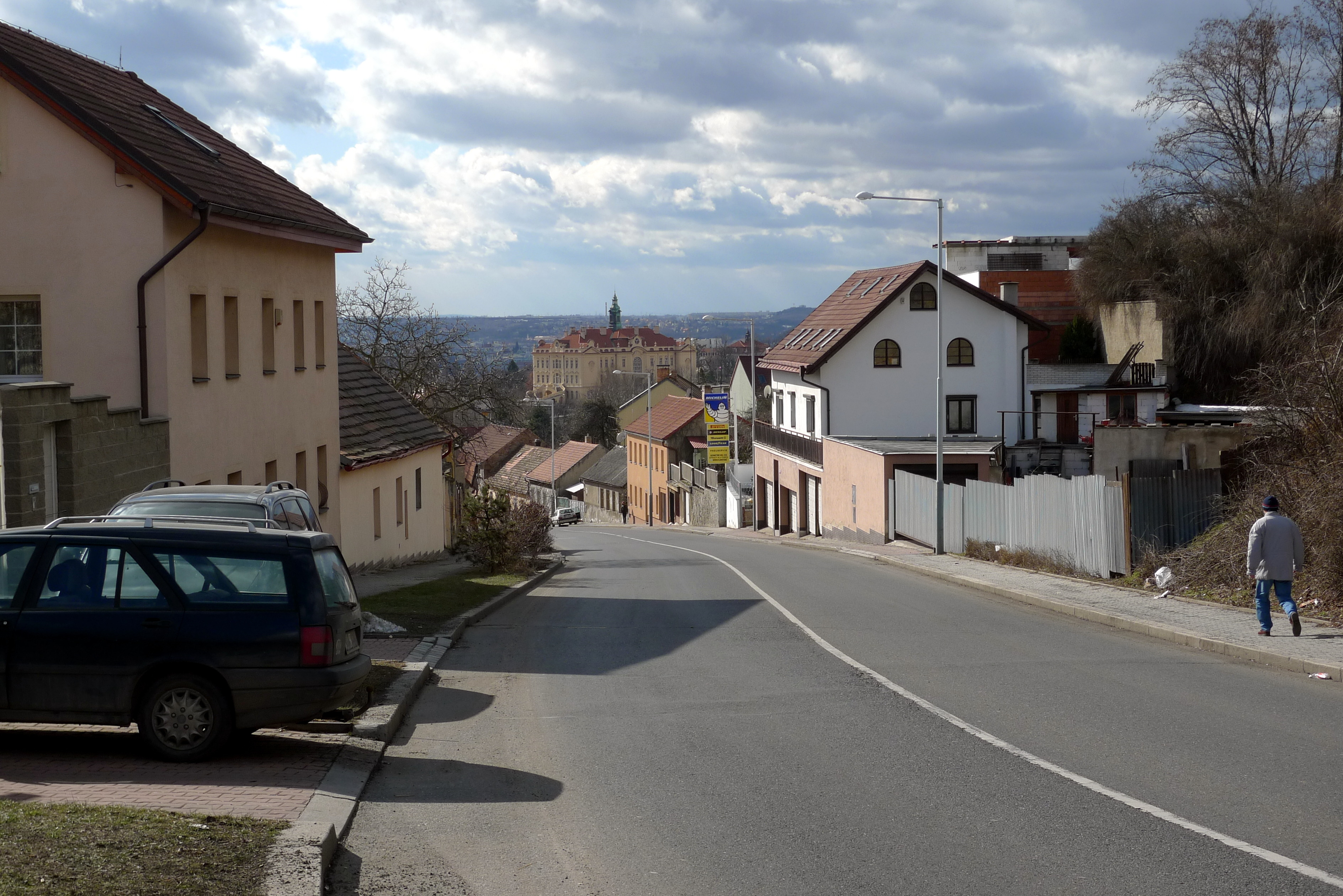 Upper Libeň, part of Prague 8, Czech Republic Česky: Davídkova ulice v Horní Libni v Praze 8, v pozadí zámeček Vychovatelna